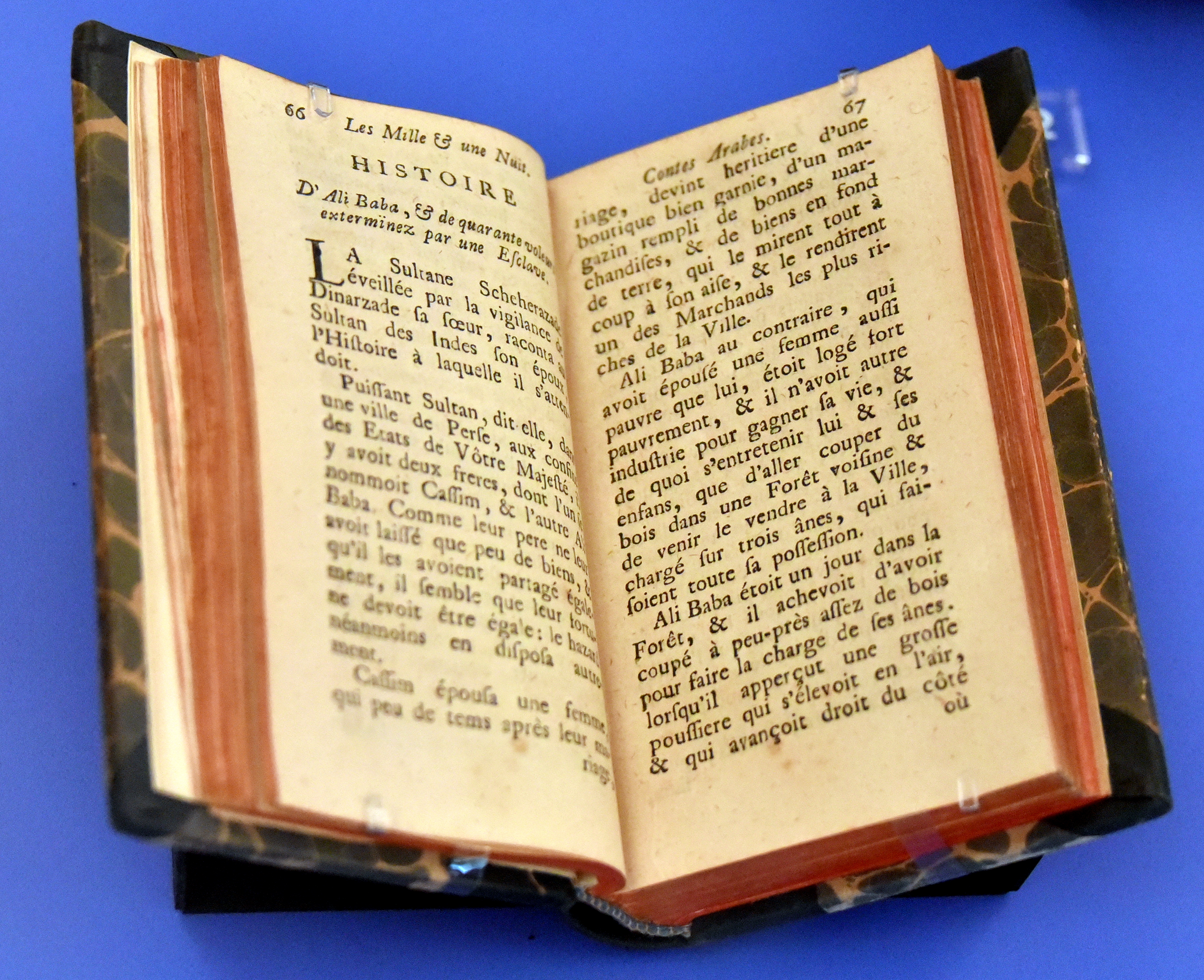 The first European edition of Arabian Nights (Les Mille et une Nuit), by Antoine Galland, Volume 11, 1730 CE, Paris. It was displayed at the Neues Museum in Berlin, Germany, Exhibition of "Cinderella, Sindbad & Sinuhe, Arab-German Storytelling Traditions", April 18, 2019, to August 18, 2019. Berlin State Library, Prussian cultural heritage (Staatsbibliothek zu Berlin, Preußischer Kulturbesitz, Benutzungsabteilung, Zu 4748-11).